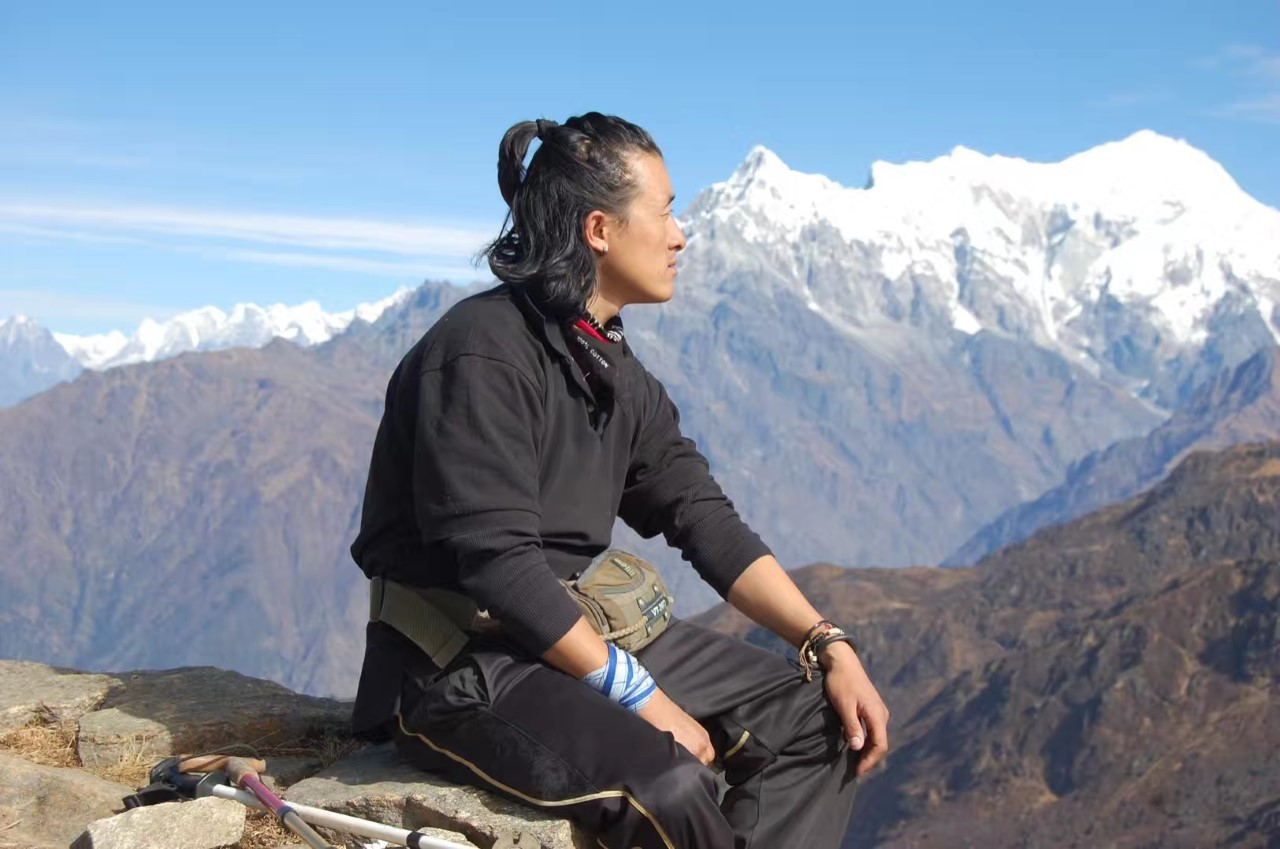 enjoying view of mountains